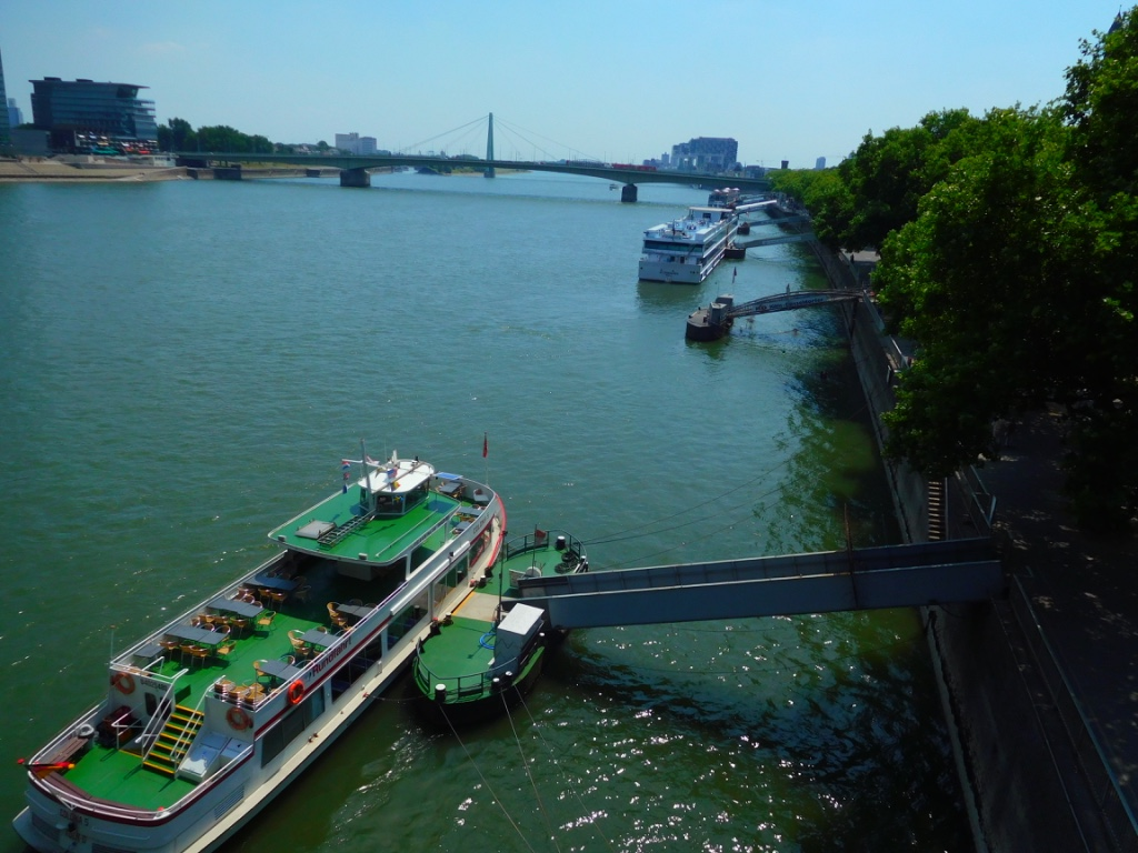 Rhine River at Cologne, Germany.